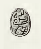 Picture of a scarab of ruler Aahotepre. Reign of Aahotepre, 16th dynasty, Second Intermediate Period.